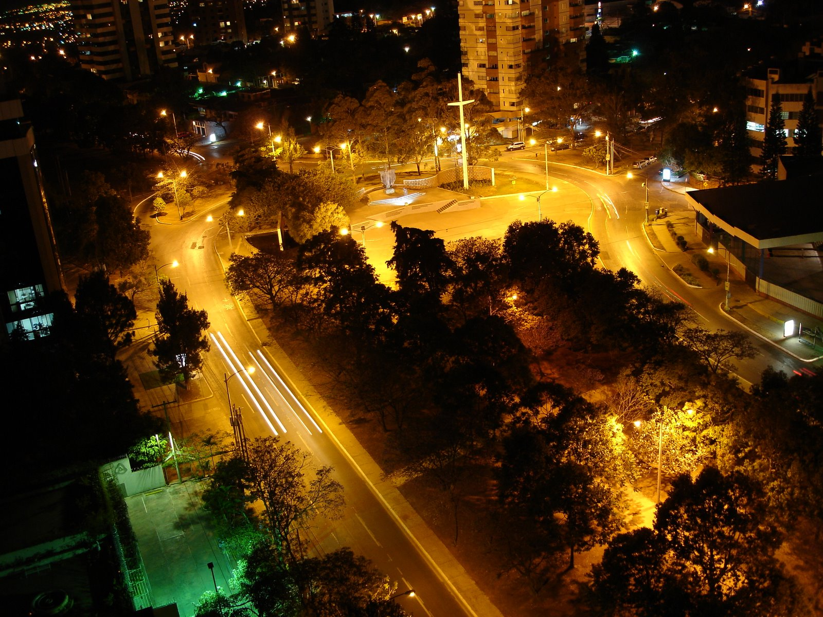 View of Guatemala City's "Plaza Juan Pablo II," at the end of "Avenue of The Americas."